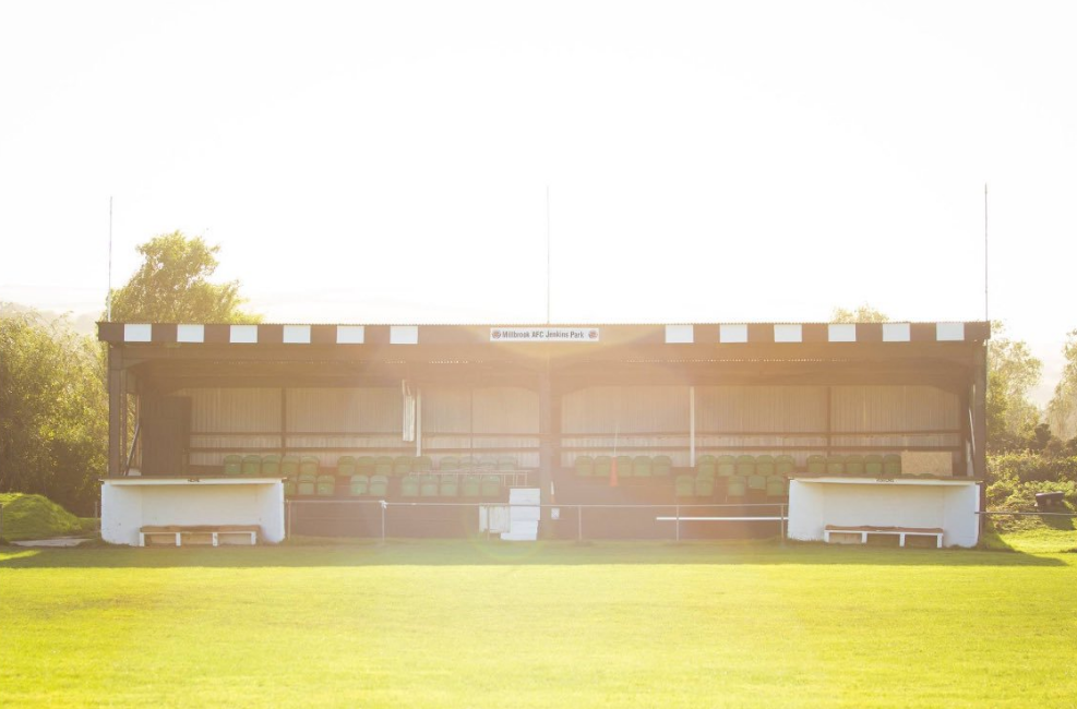 Jenkins Park, the home of Millbrook A.F.C.